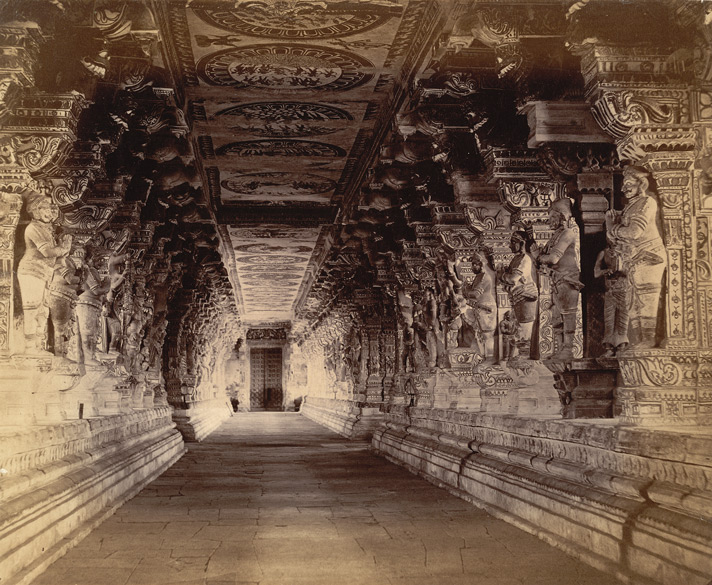 Photograph of the Ramalingeshvara Temple, Rameswaram in Tamil Nadu, taken by Nicholas and Company in c.1884, from the Archaeological Survey of India Collections. This temple is situated on the sacred Hindu island of Rameswaram, connected to the mainland by a causeway. The site is believed to be related to the story of Rama of the Ramayana epic. It was founded during the Chola period but belongs mostly to the Nayaka period of the 17th and 18th centuries. The complex is contained within high walls entered through tall towered gopuras on three sides. These gateways lead to an exceptionally long colonnade that surrounds the intermediate enclosure. The colonnade has over 4000 carved granite pillars and measures 205 m (671 ft) on the north and south sides. This is a view looking along the corridor lined with sculptured and painted pillars, with wooden double doors at the far end.